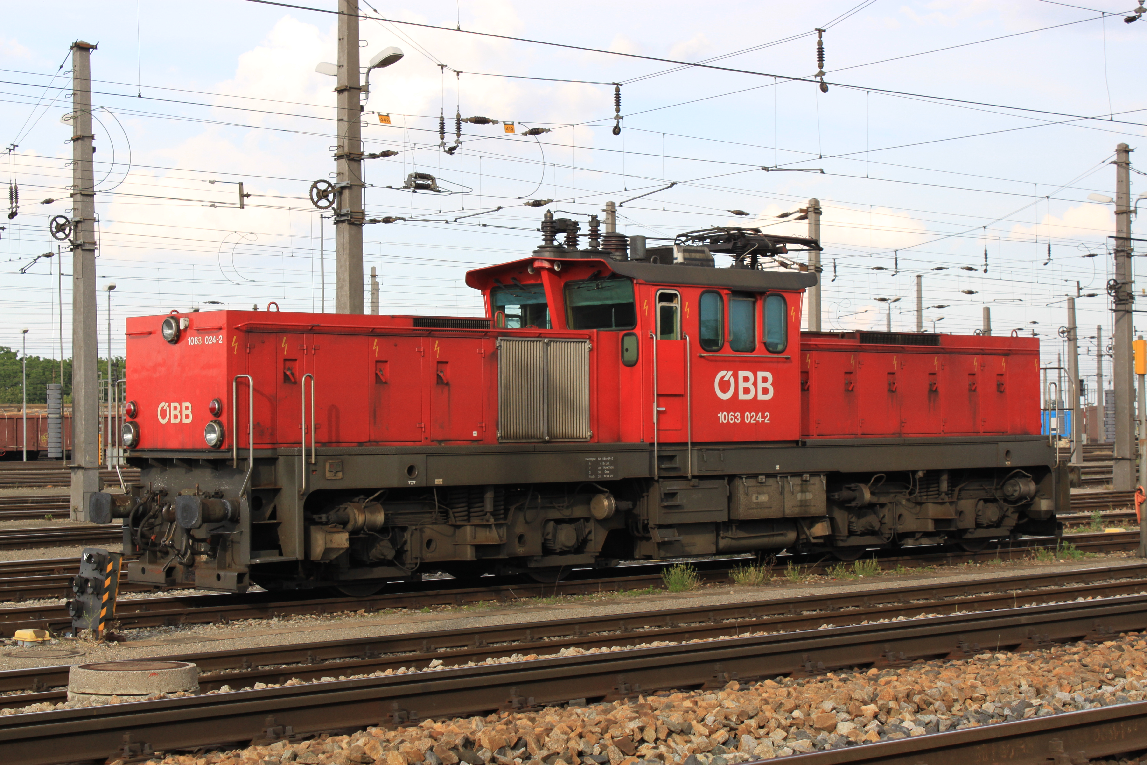 Electric locomotive OeBB 1063 024, central freight station Kledering/Vienna